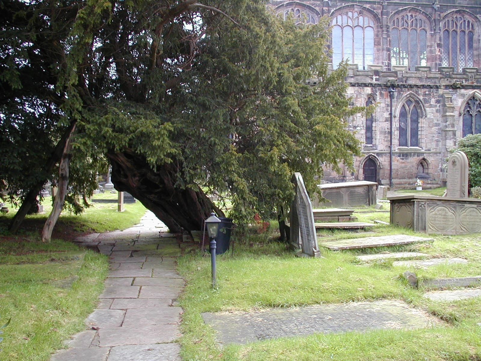 Photo of the Yew tree in Astbury Church Churchyard. Taken by Dan Carter on 13th October 2000.